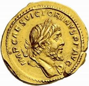 Victorinus, 269–271, AV Aureus, Cologne, late 269, 5.34 g. Obv IMP CAES VICTORINVS AVG, laureate bust right, drapery on left shoulder. Cohen 16; RIC 94; Schulte 5a and plate 17 (this coin). Jameson II 461 (this coin). Elmer 685. Calicó 3811 (this coin). Kent- Hirmer pl. 134, 517.